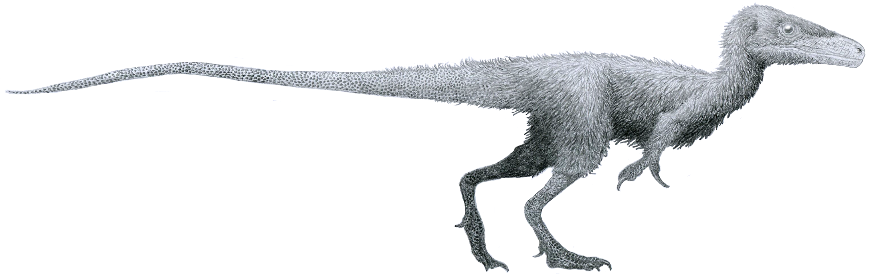 Life reconstruction of the juvenile theropod Juravenator starki.